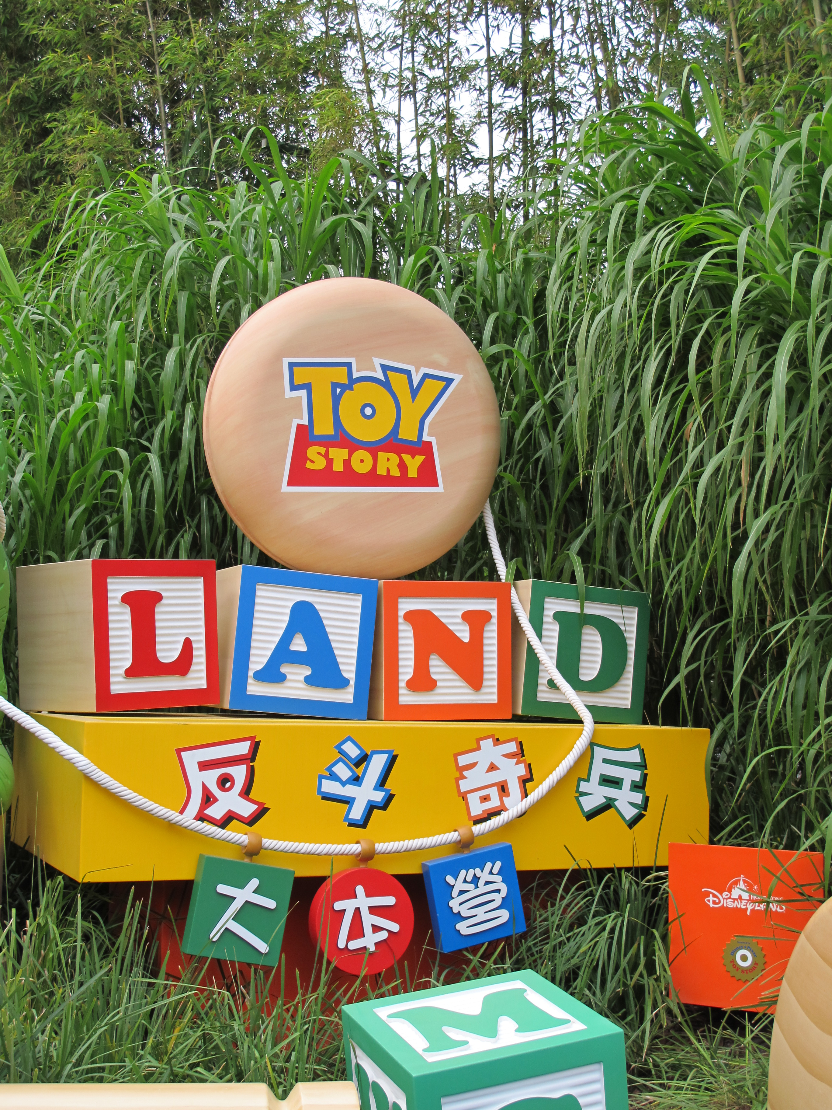 The entrance to Toy Story Land at Hong Kong Disneyland.